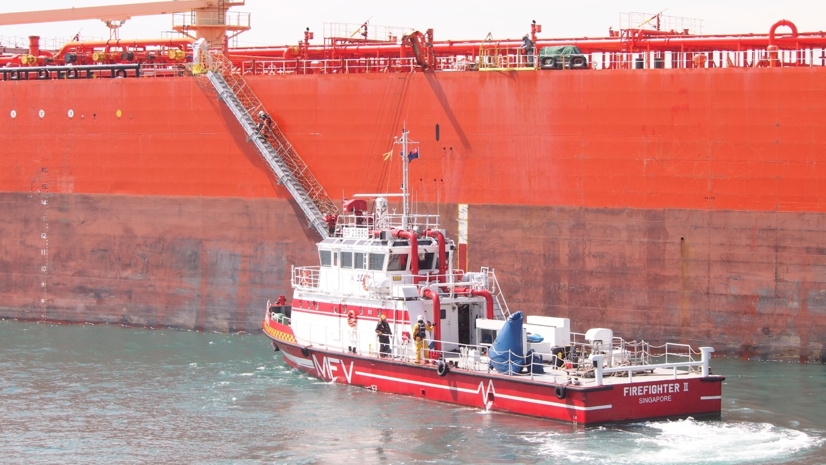 The Singapore-registered fireboat Firefighter II (MMSI 563003860) taking part in the "Chemspill 2013" chemical spill simulation in Singapore.